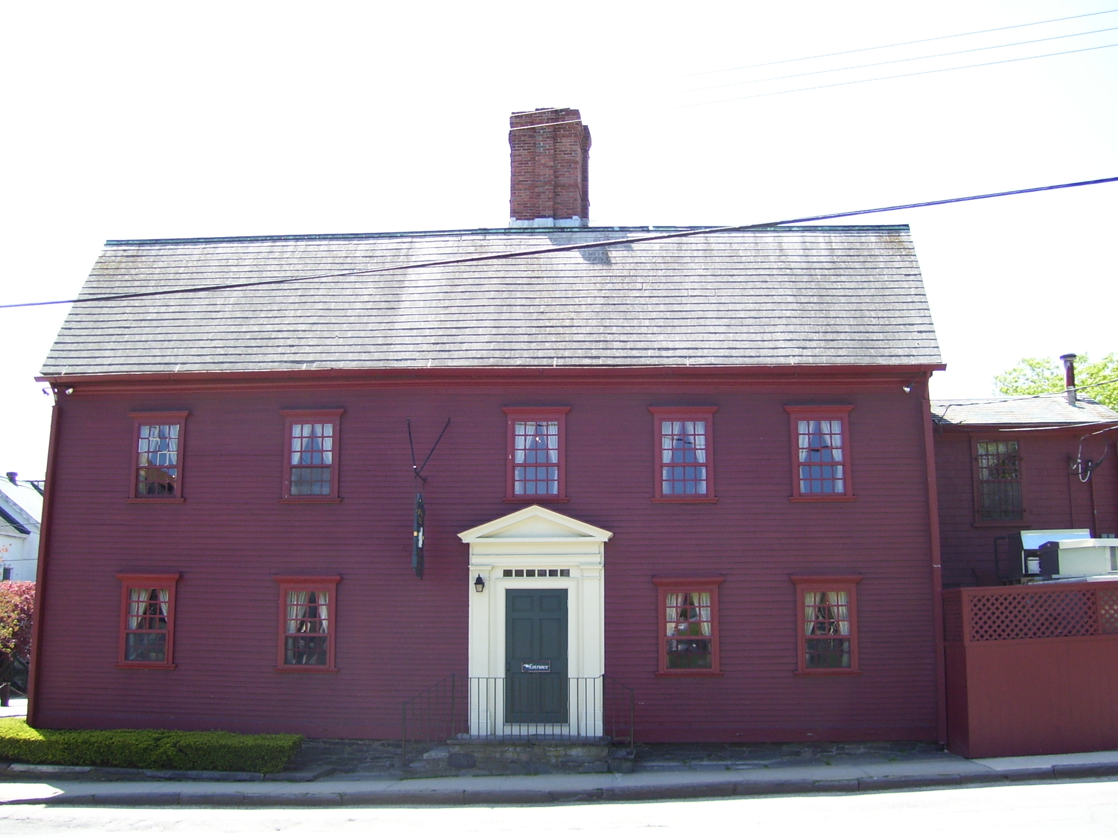 My pic of the White Horse TAvern in NEwport, RI from 2008